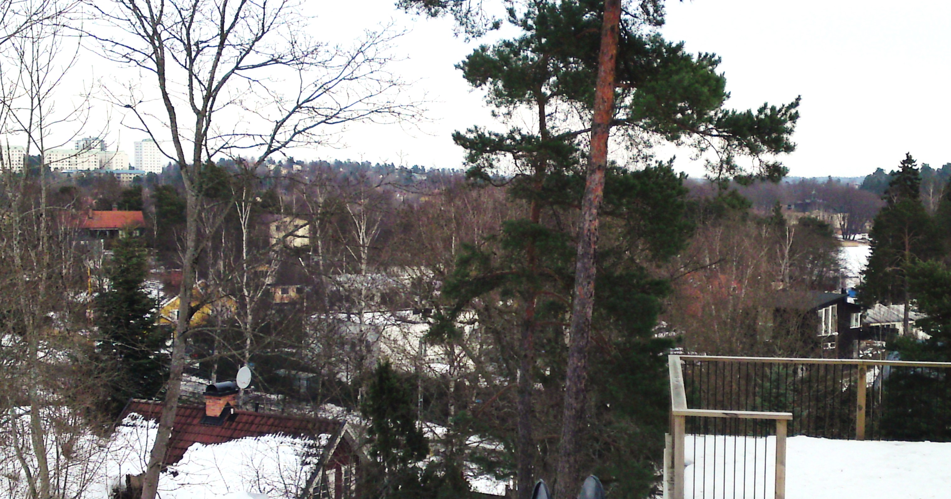 Lahäll, Täby kommun, Stockholm county, Sweden